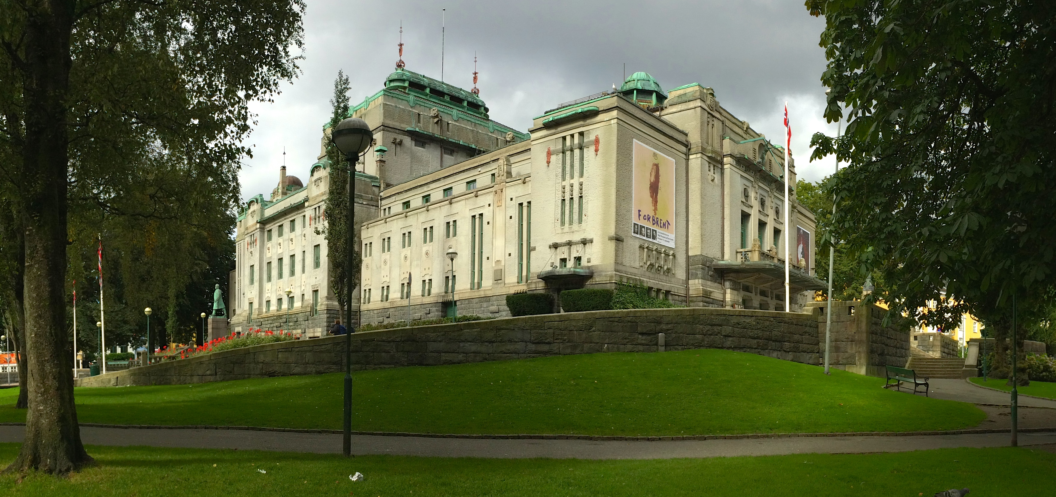 Den Nationale Scene Theatre in Bergen, Norway. September 20th, 2015. Distorted iPhone-panorama.